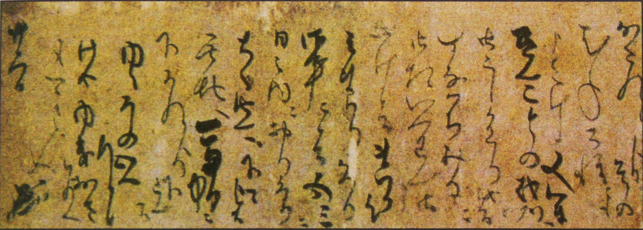 A part of Ishida Mitsunari's letter to Ooto Shinsuke, a direct retainer. The contents on a letter are about the change of the Hideaki Kobayakawa's territories.